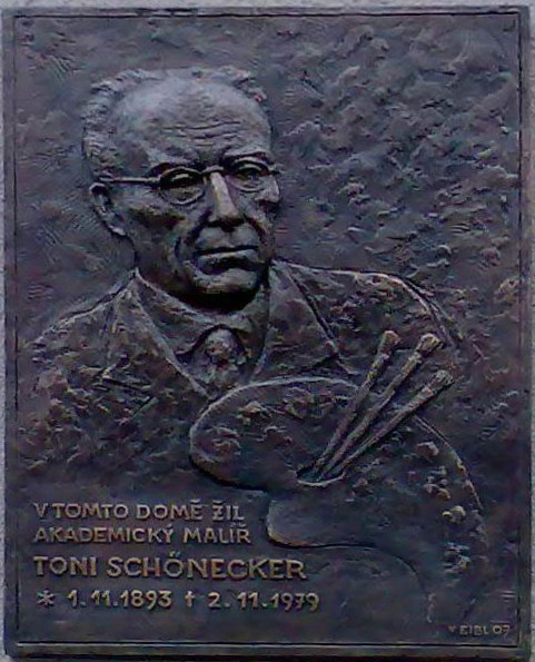 Plaque commemorating the painter, sculptor, and photographer Toni Schönecker in Sokolov in the Czech Republic.